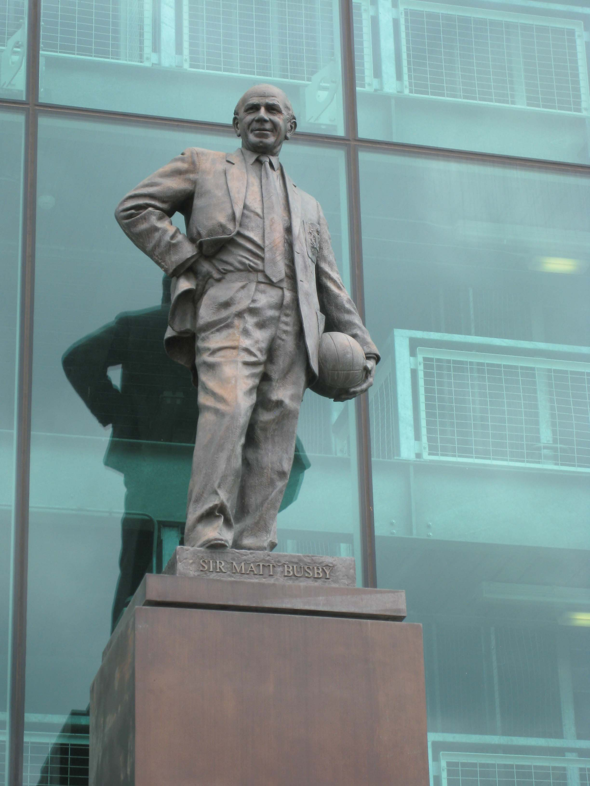 A statue of Matt Busby (1909-94) in front of Old Trafford stadium. He was the longest serving manager of Manchester United, active from 1945-71, and just like the current manager, Alex Ferguson, he was from Scotland.